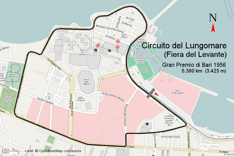 Circuito del Lungomare - Bari 1956